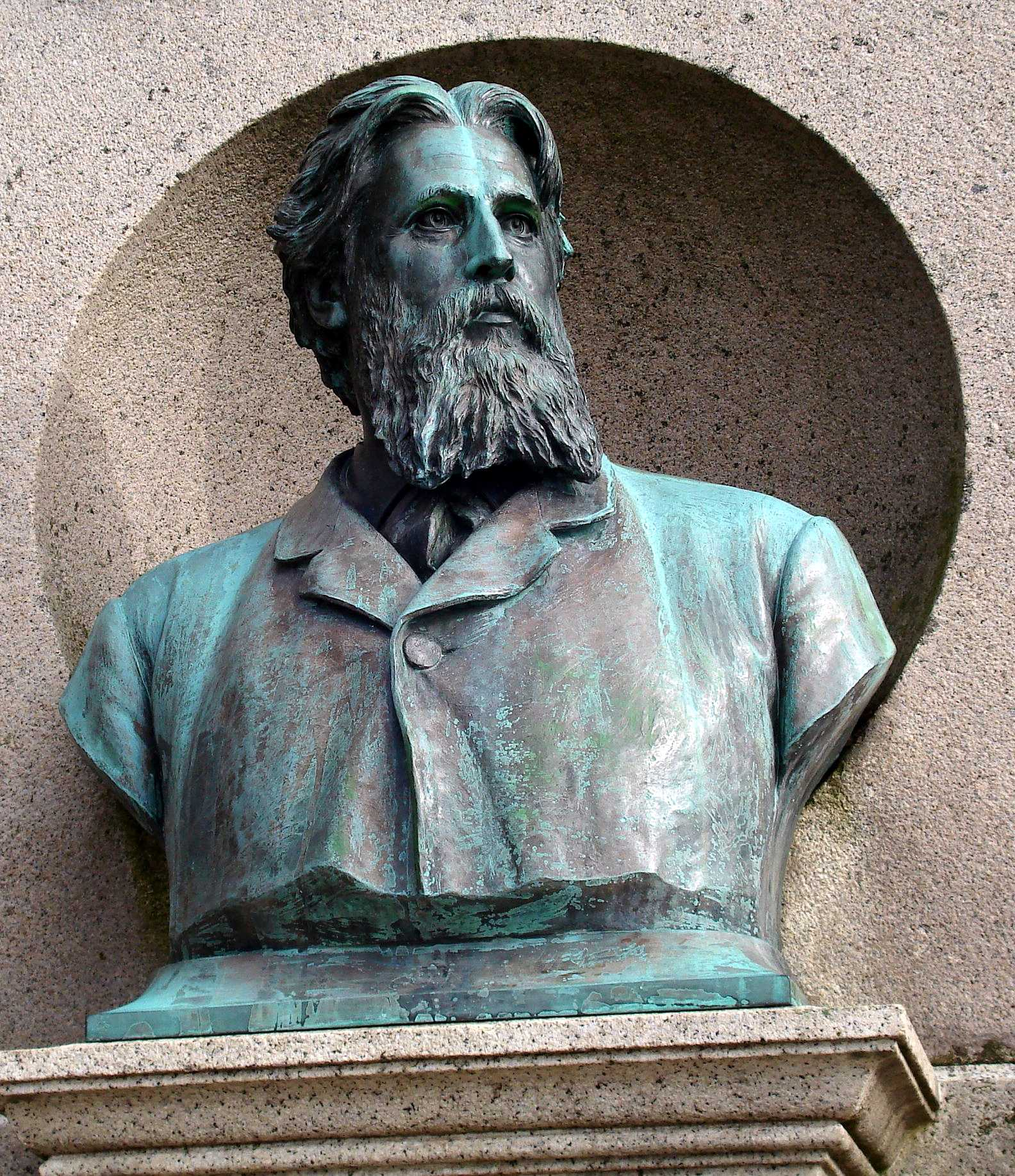 The Bavarian local poet Karl Stieler, detail from his memorial.